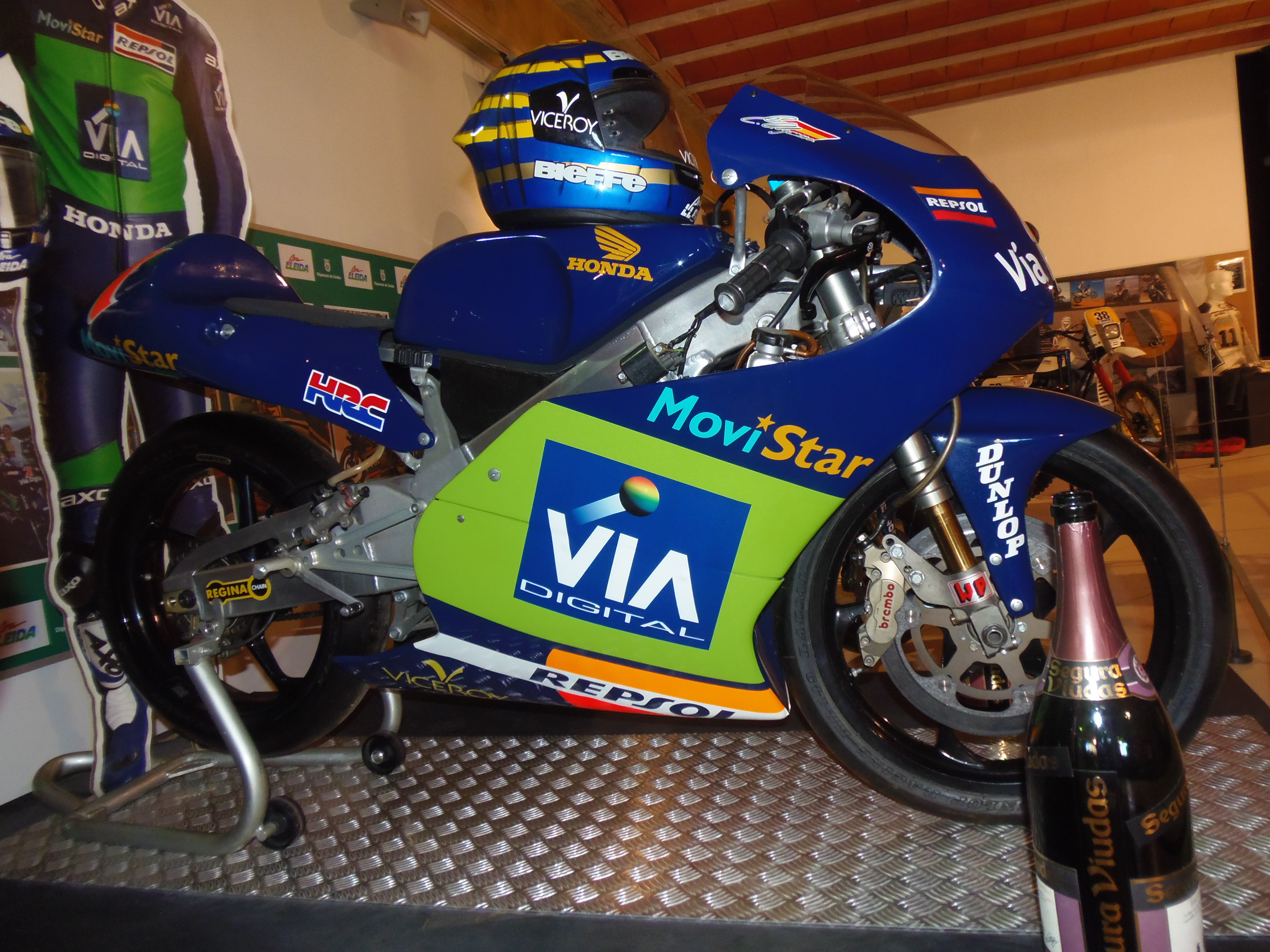 Honda 125. On this bike, Emilio Alzamora won the 125cc World Championship in 1999.